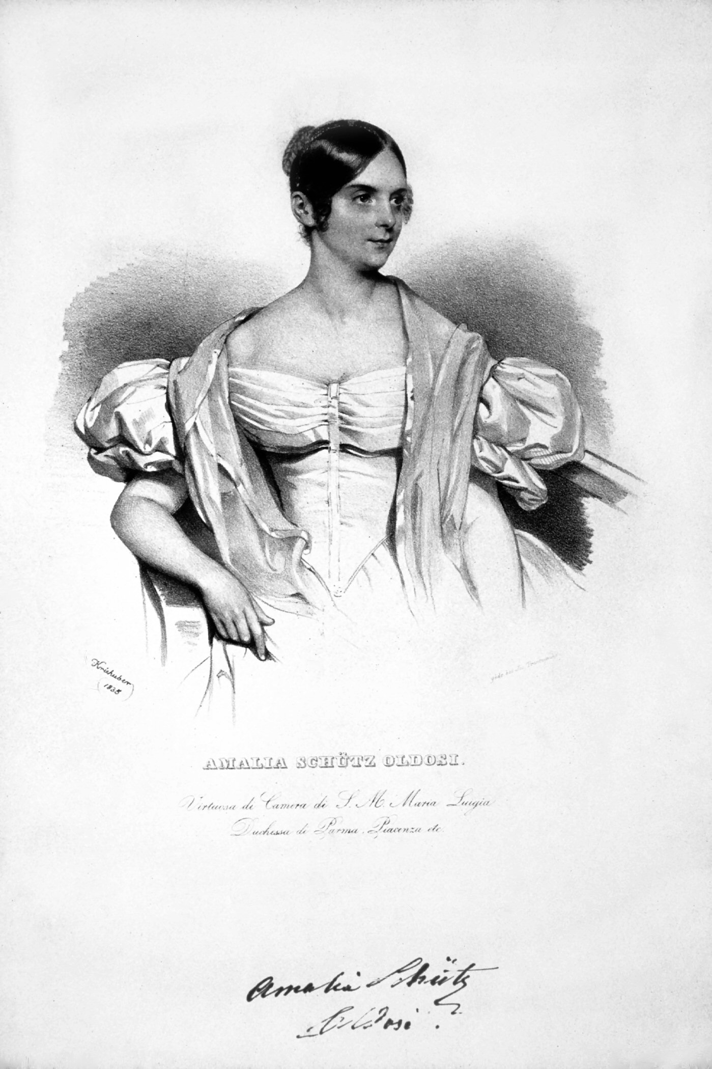 Amalia Schütz-Oldosi (1803-1852), Sängerin